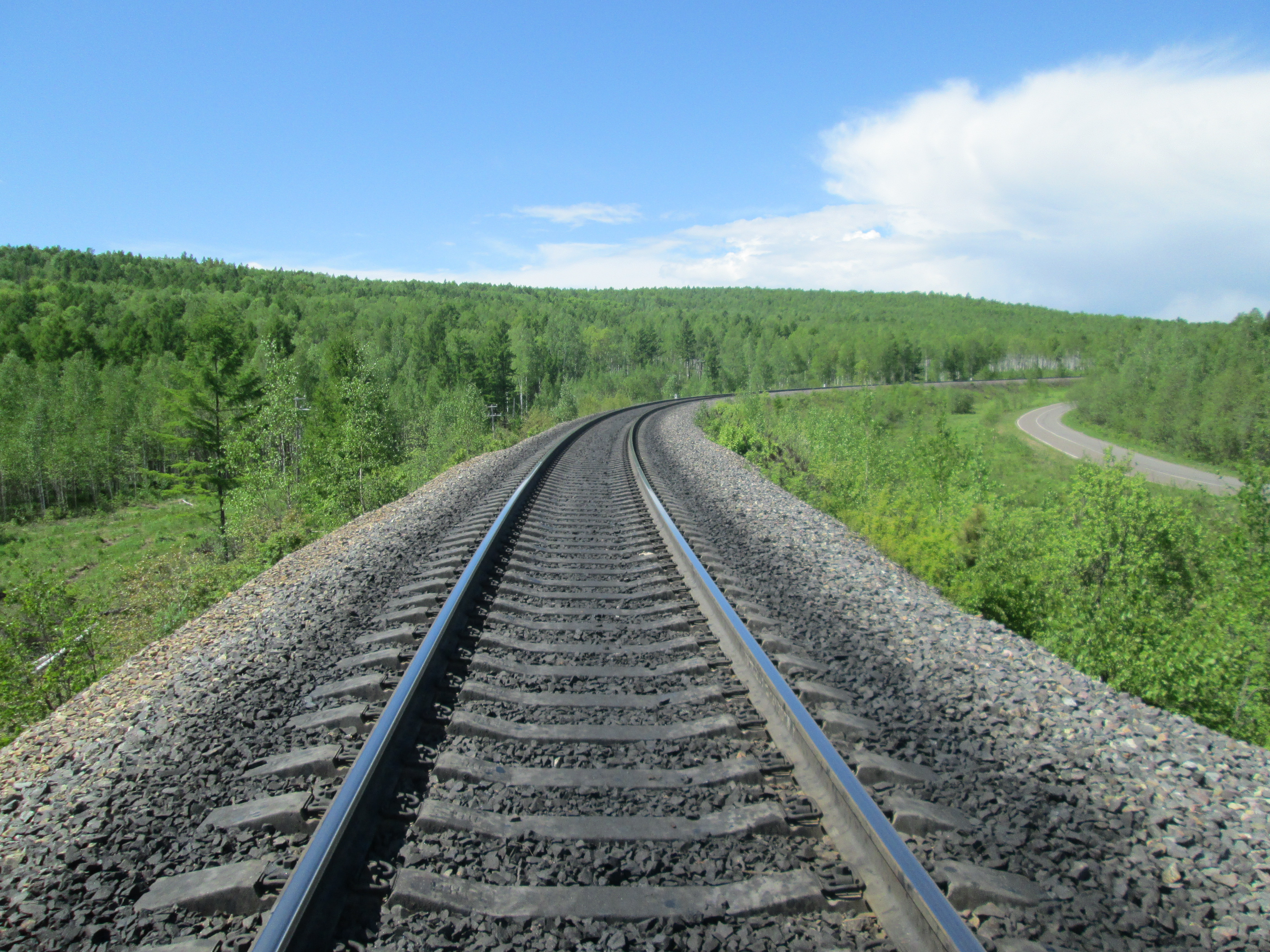 1520 mm gauge railway.